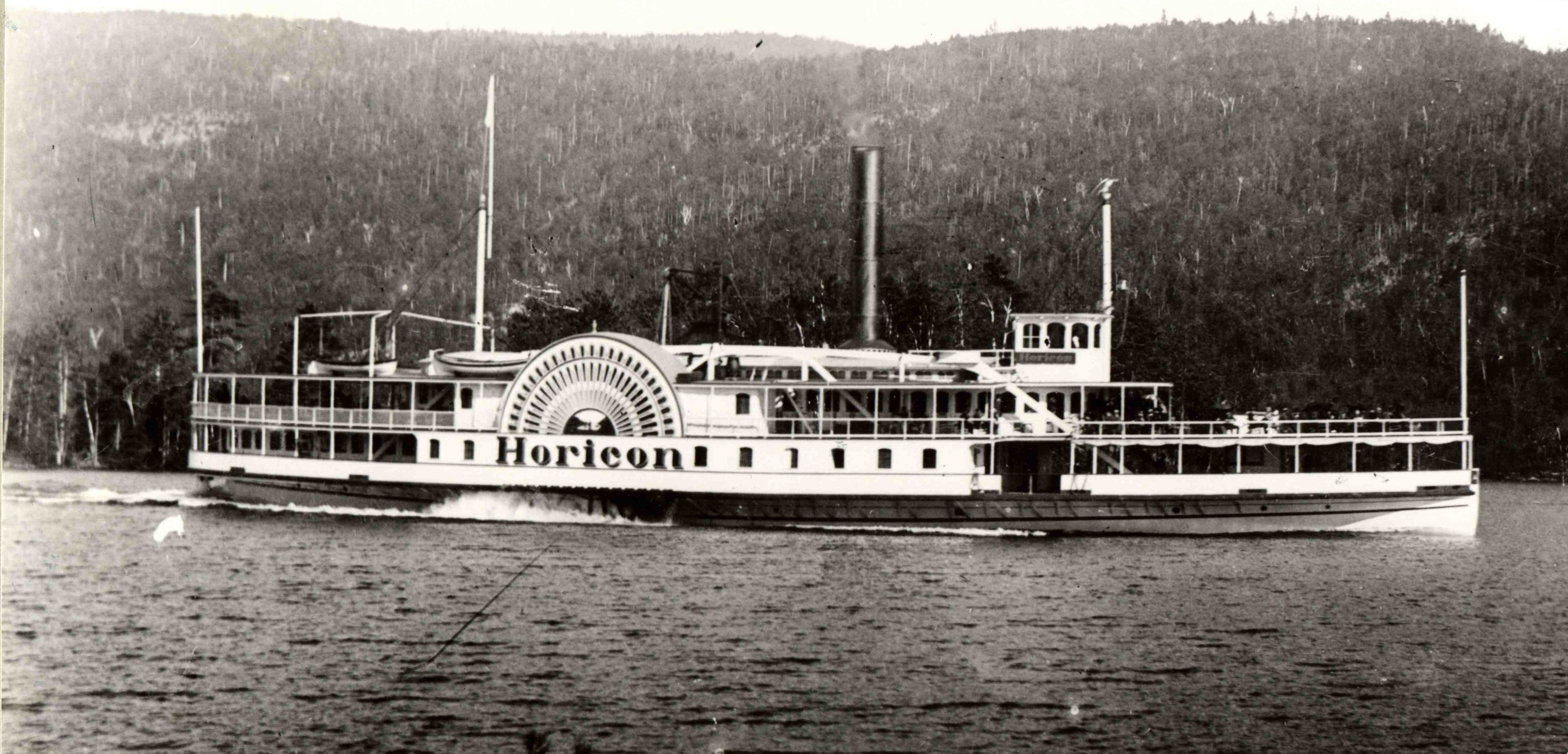 Description: This is an image of the steamboat "Horicon" on Lake George, New York. Creator/Photographer: Unidentified photographer Medium: Black and white photographic print Culture: American Geography: USA Date: 1900 Collection: U.S. Mail Packets and Boats Repository: National Postal Museum Accession number: A.2006-94